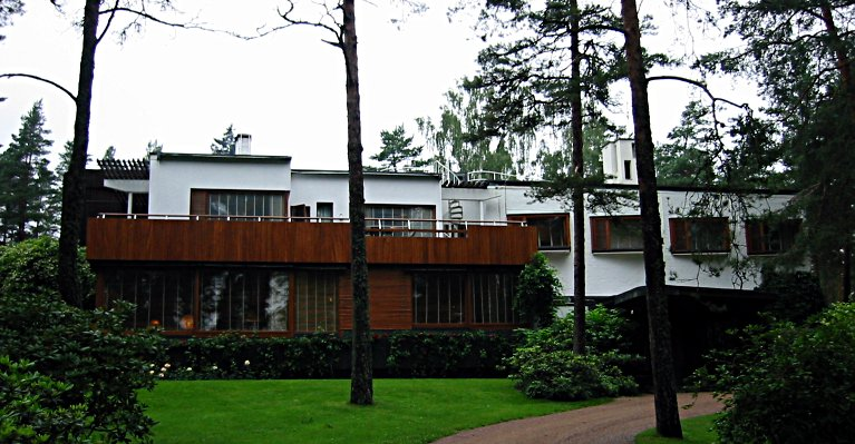 Alvar Aalto's Villa Mairea in Noormarkku, Finland